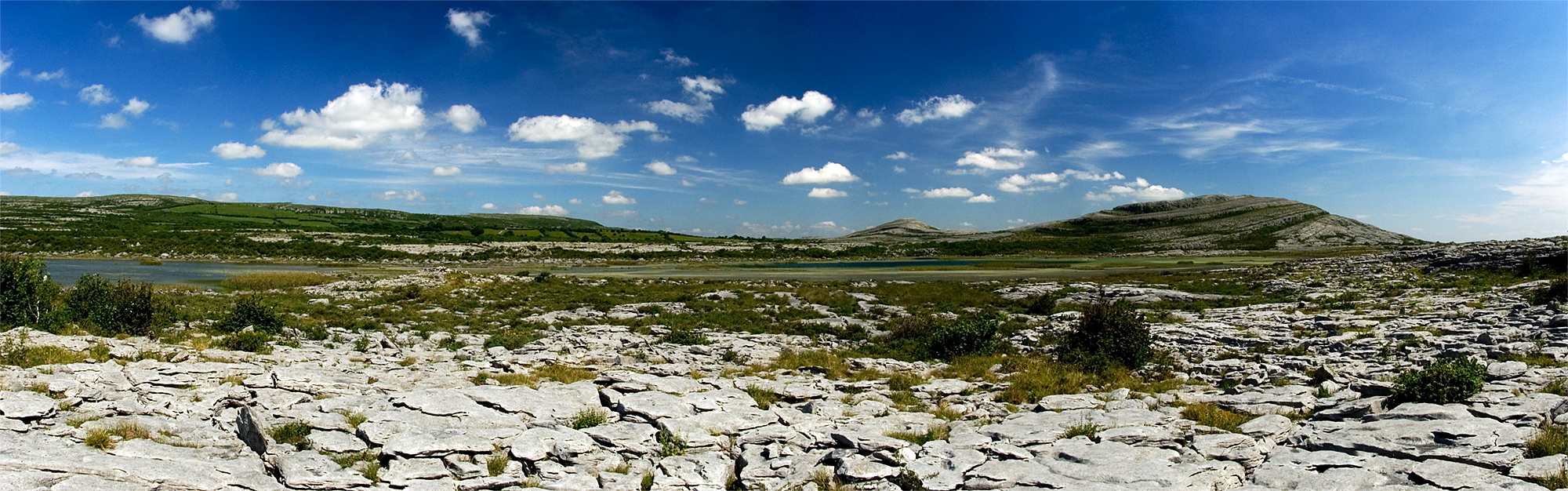 Burren Panorama. Looking over a turlough to Mullagh Mor. County Clare, Ireland.